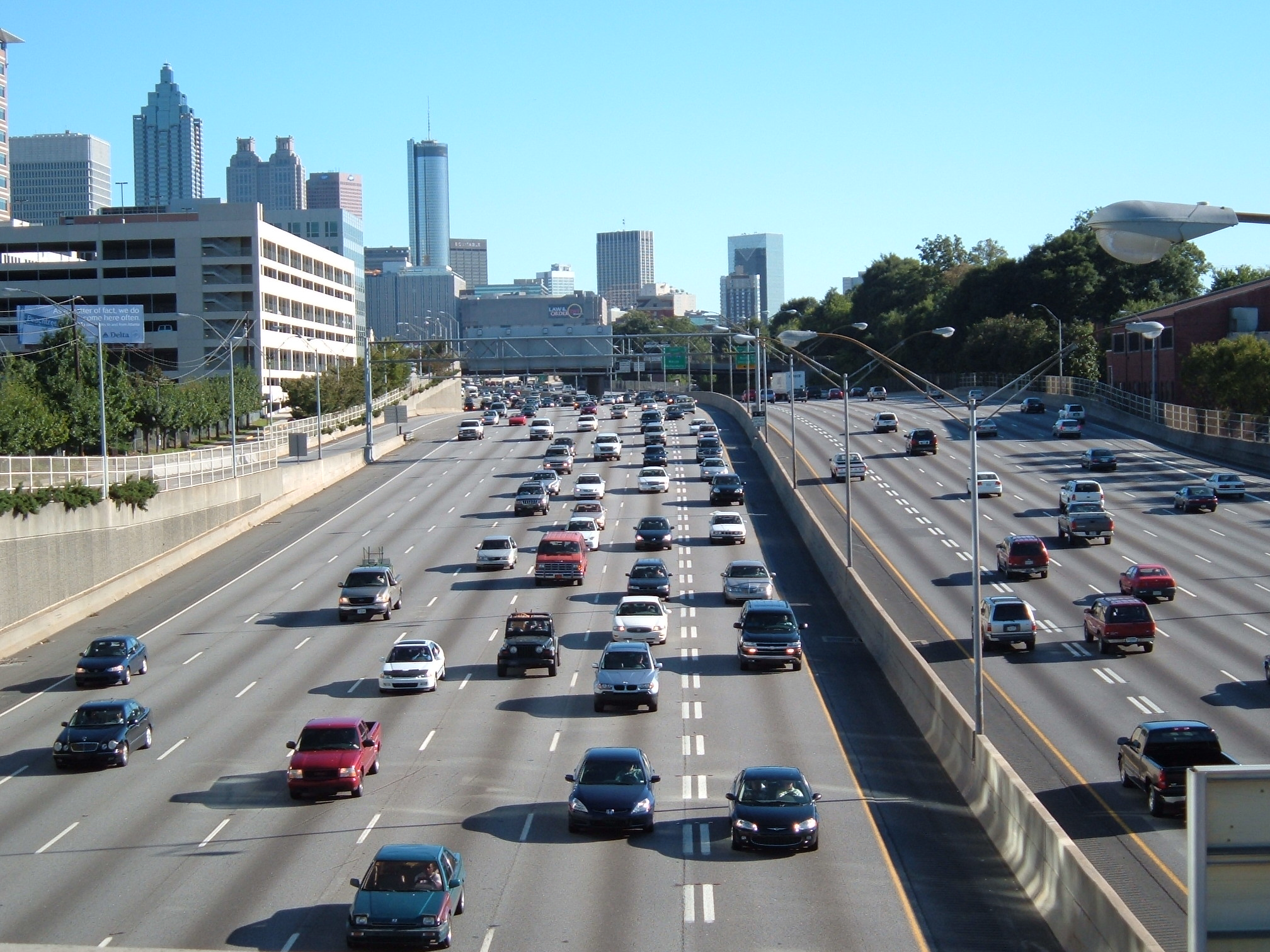 Downtown connector in Atlanta, GA, USALocation: 10th Street bridge, facing SouthThe lanes near the middle with double lines are 24/7 HOV lanes.